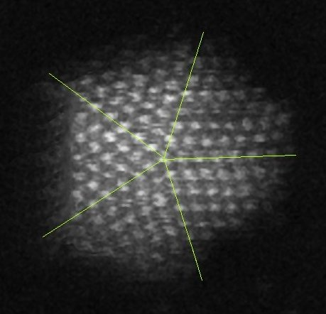 Electron microscope image (STEM-HAADF) of a gold nanoparticle showing 5-fold twinning. Microscope: Jeol, 200 kV, 3rd-order aberration corrected (illumination beam only).